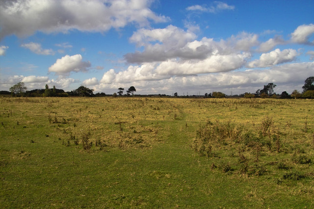 Site of the Priory of St. Mary, Nuncotham This hummocky field is the site of the priory of St. Mary at Nuncotham, a House of Cistercian nuns, which was founded c1147-1153 and dissolved in 1539. For further information see Monasticon and Victoria County History